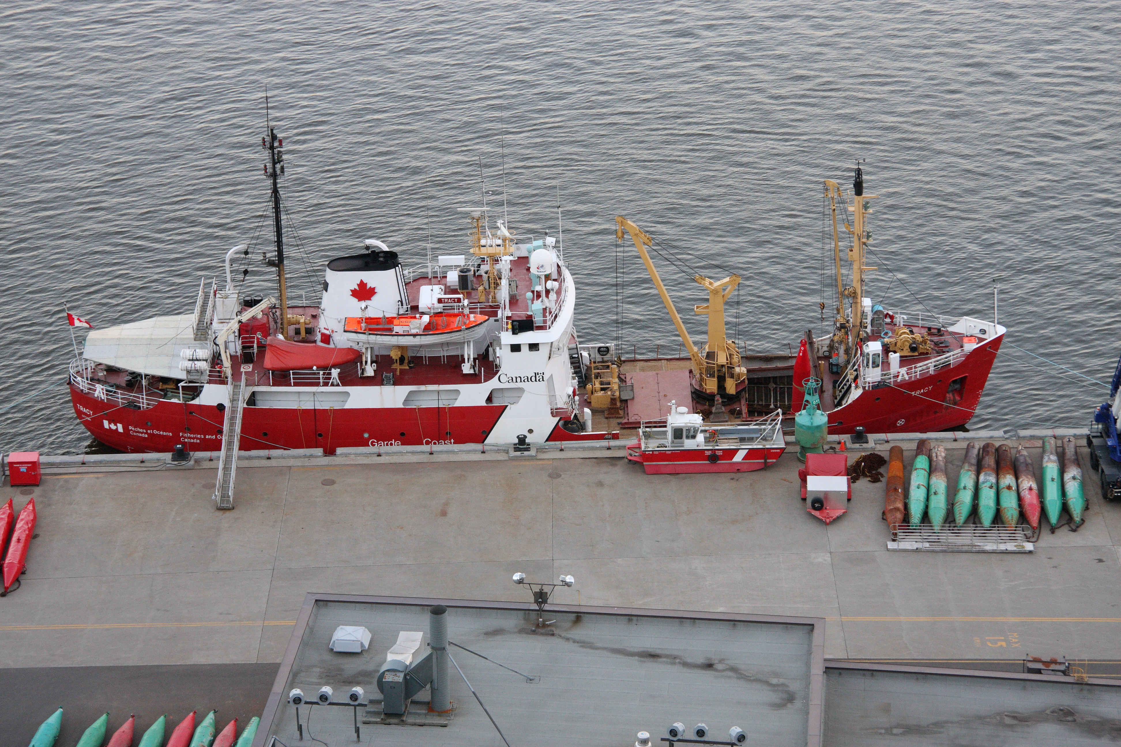 Canadian Coast Guard Ship Tracy, Quebec City, Canada